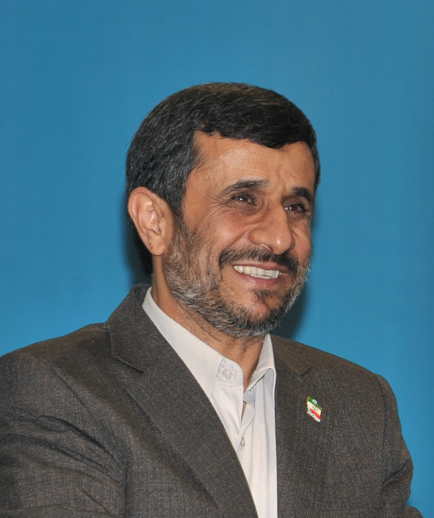 Mahmoud Ahmadinejad, President of Iran